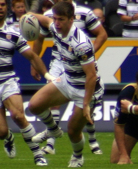 Tom Briscoe